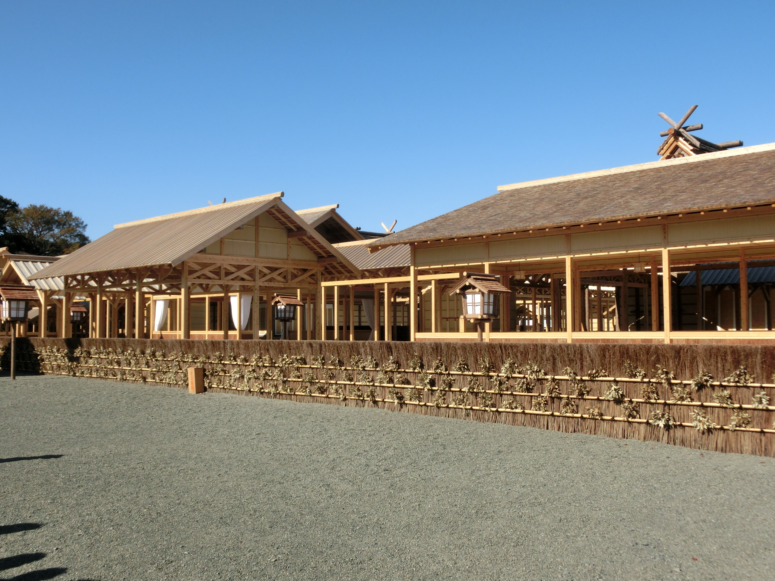 Reiwa Daijokyu